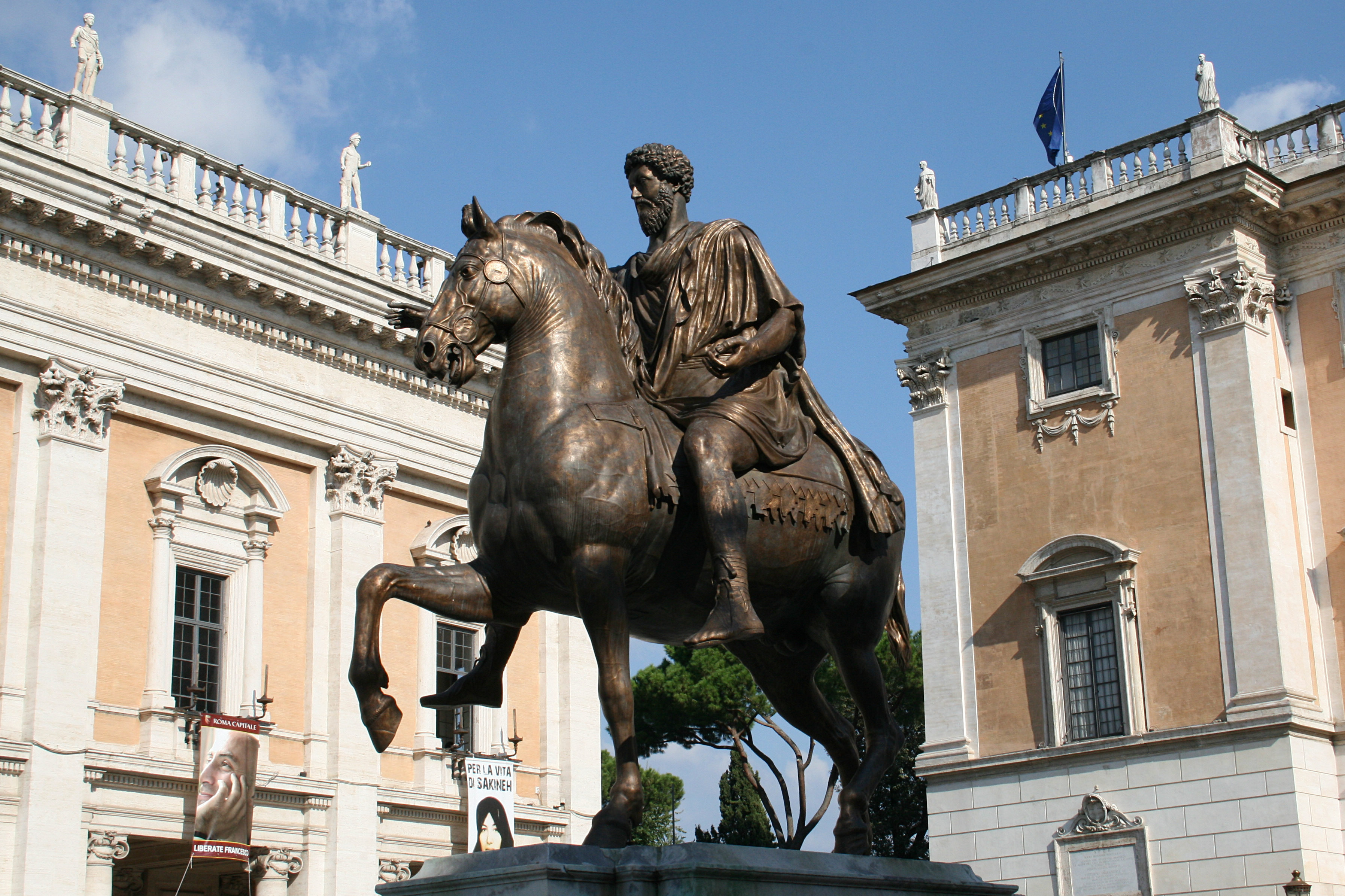 Bronze statue of Marcus Aurelius, piazza del Campidoglio in Rome. Modern copy of a Roman original of the 2nd century CE, now kept in the Palazzo Nuovo, Musei Capitolini.